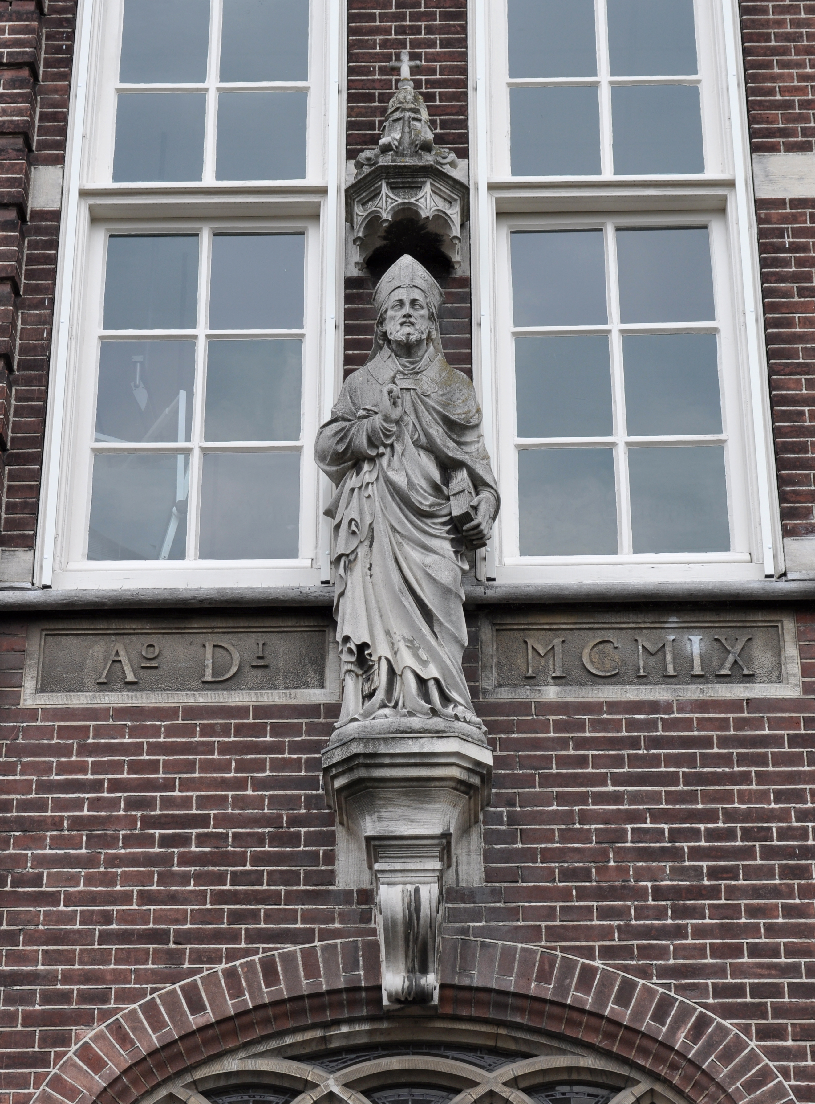 Sculpture of Gregory of Utrecht at the Kromme Nieuwegracht (St. Gregorius College), placed in 1909.